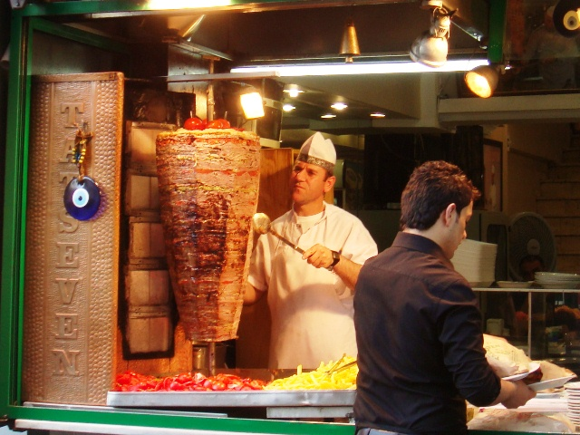 Doner kebab